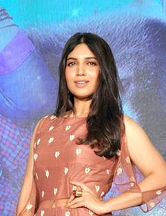 Bhumi Pednekar during the trailer launch of film Shubh Mangal Savdhan in Mumbai